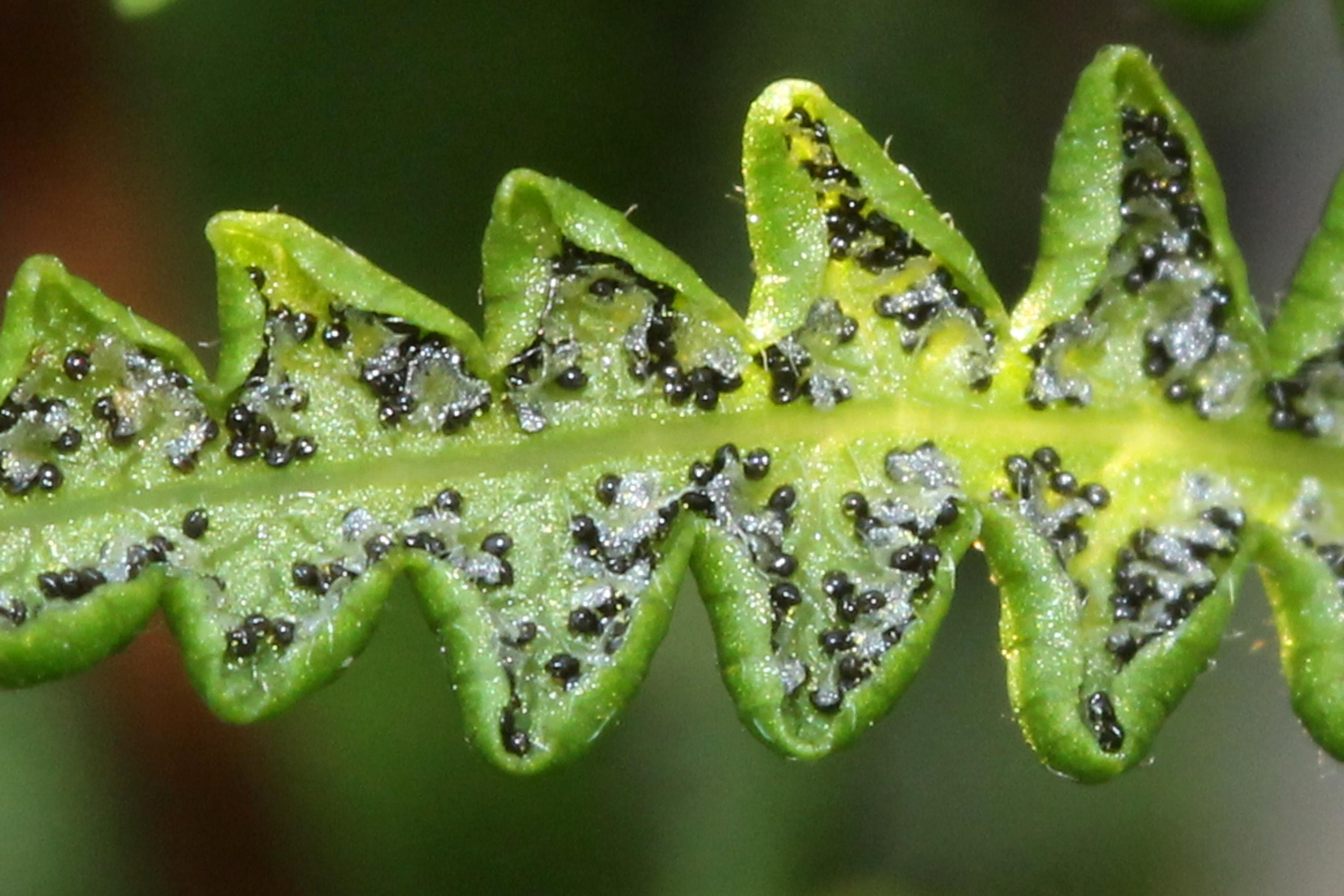 Thelypteris palustris Schott - marsh fern - pinnules of fertile frond showing "dotted" sori - Sault Ste. Marie, Ontario, Canada